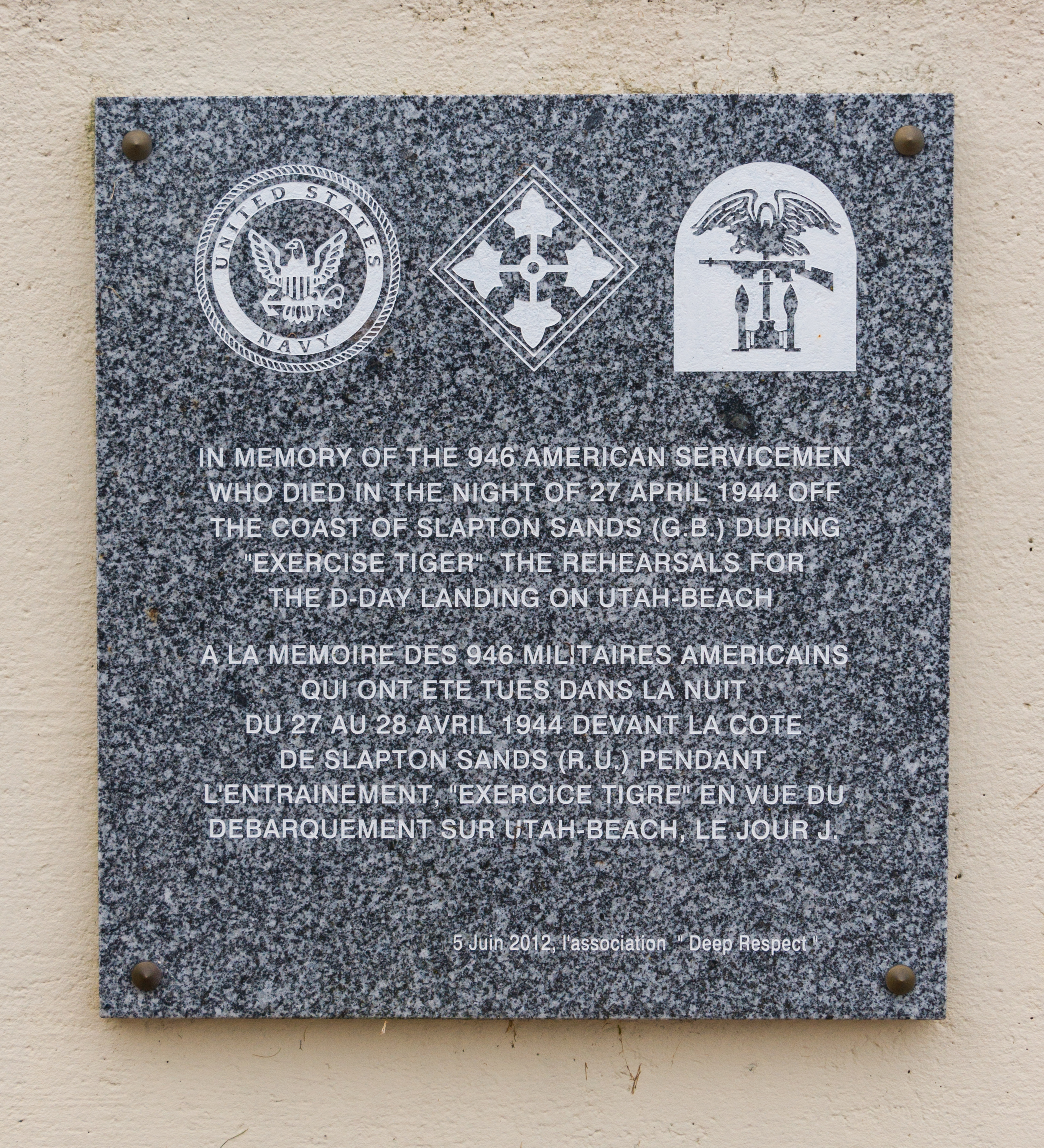 "Exercise Tiger" memorial plaque, Utah Beach, Manche, Normandy, France.